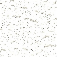 hard mineraal